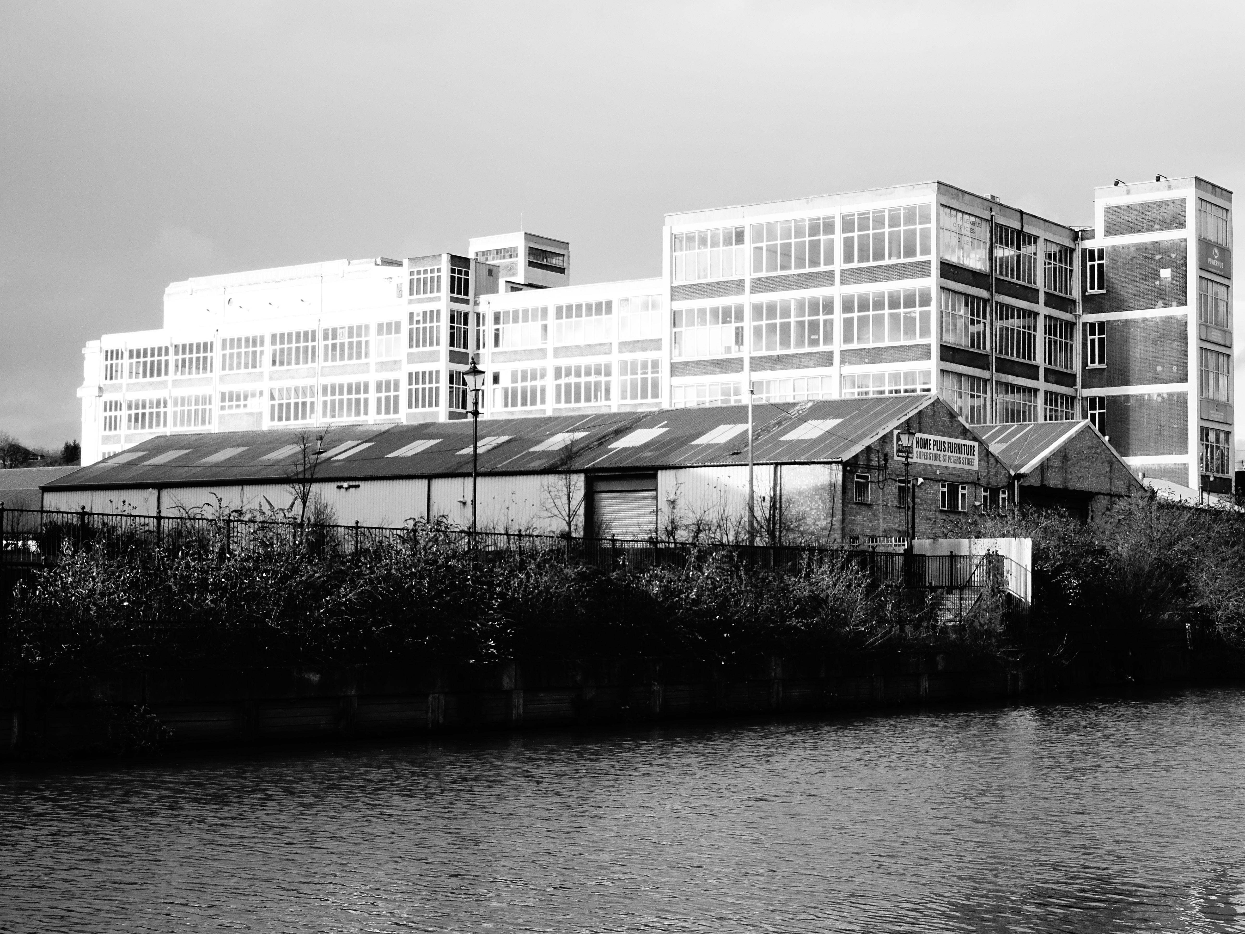 Powerhub building, Maidstone, Kent. Former Tilling-Stevens Factory. Designed by Wallis, Gilbert and Partners and built in 1917. Grade II listed.